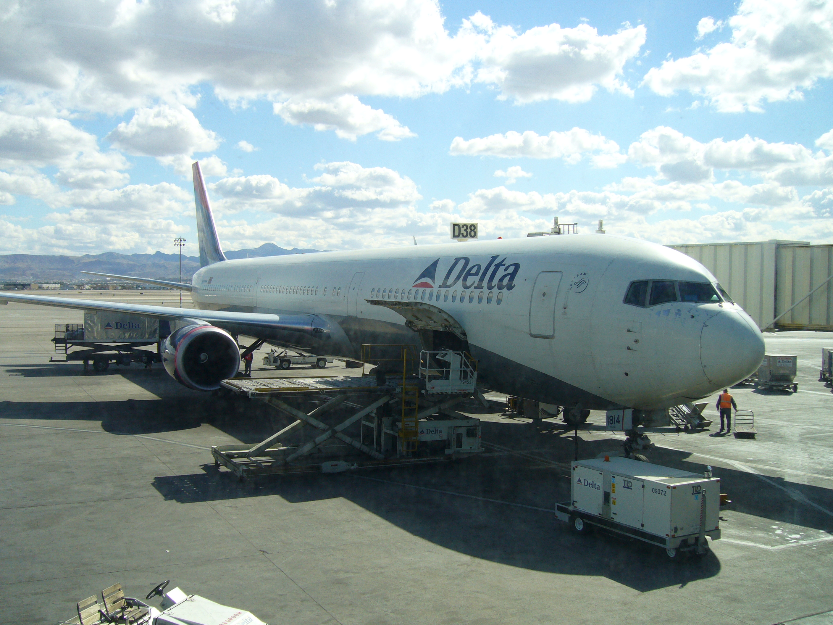 Boeing 767-400ER by Delta Airlines.